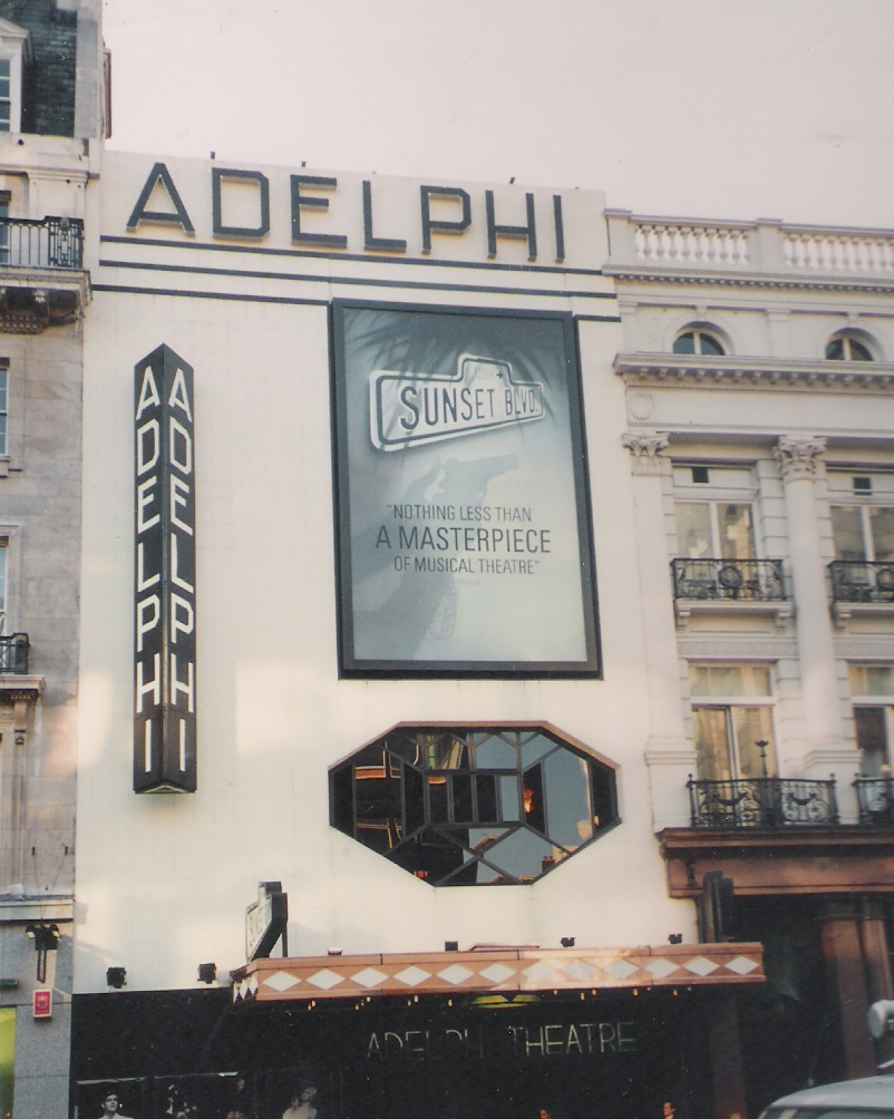 The London's Adelphi Theatre